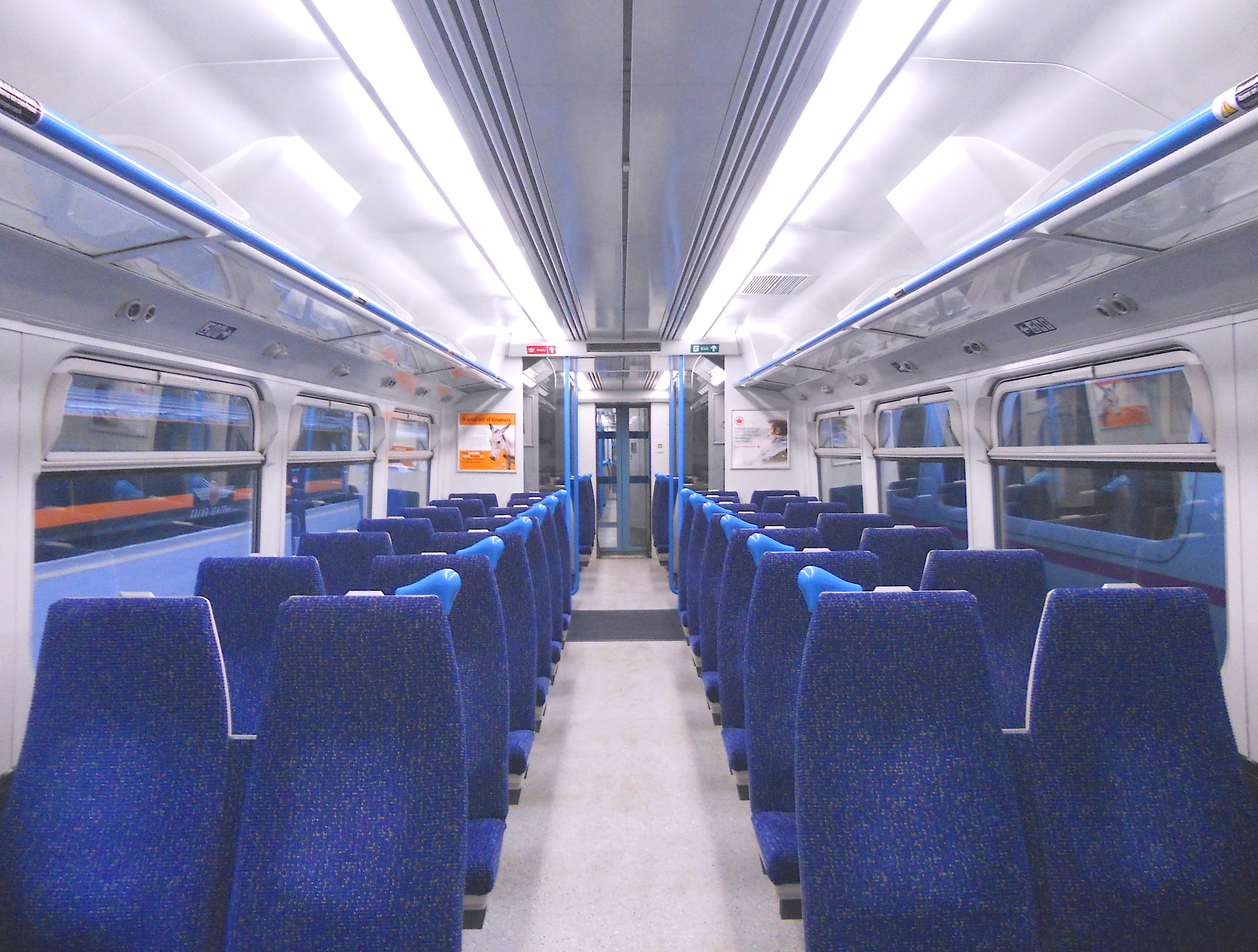 The interior of refurbished Standard Class accommodation from a Great Northern Class 365